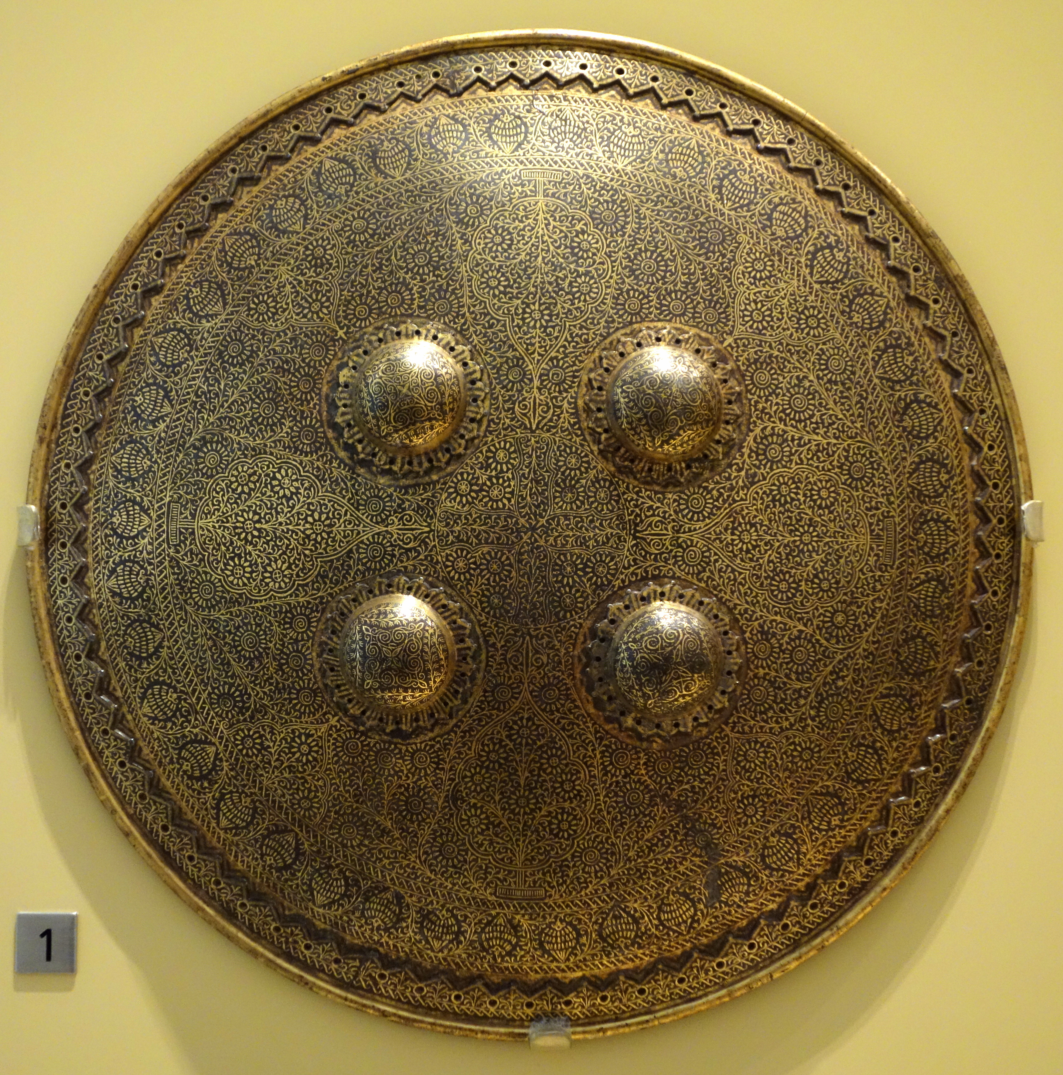 Exhibit in the Royal Ontario Museum, Toronto, Ontario, Canada. This work is old enough so that it is in the public domain.